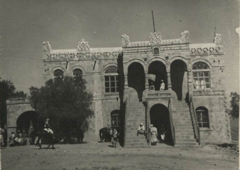 Ministry of Foreign Affairs building in Ta'izz in 1952